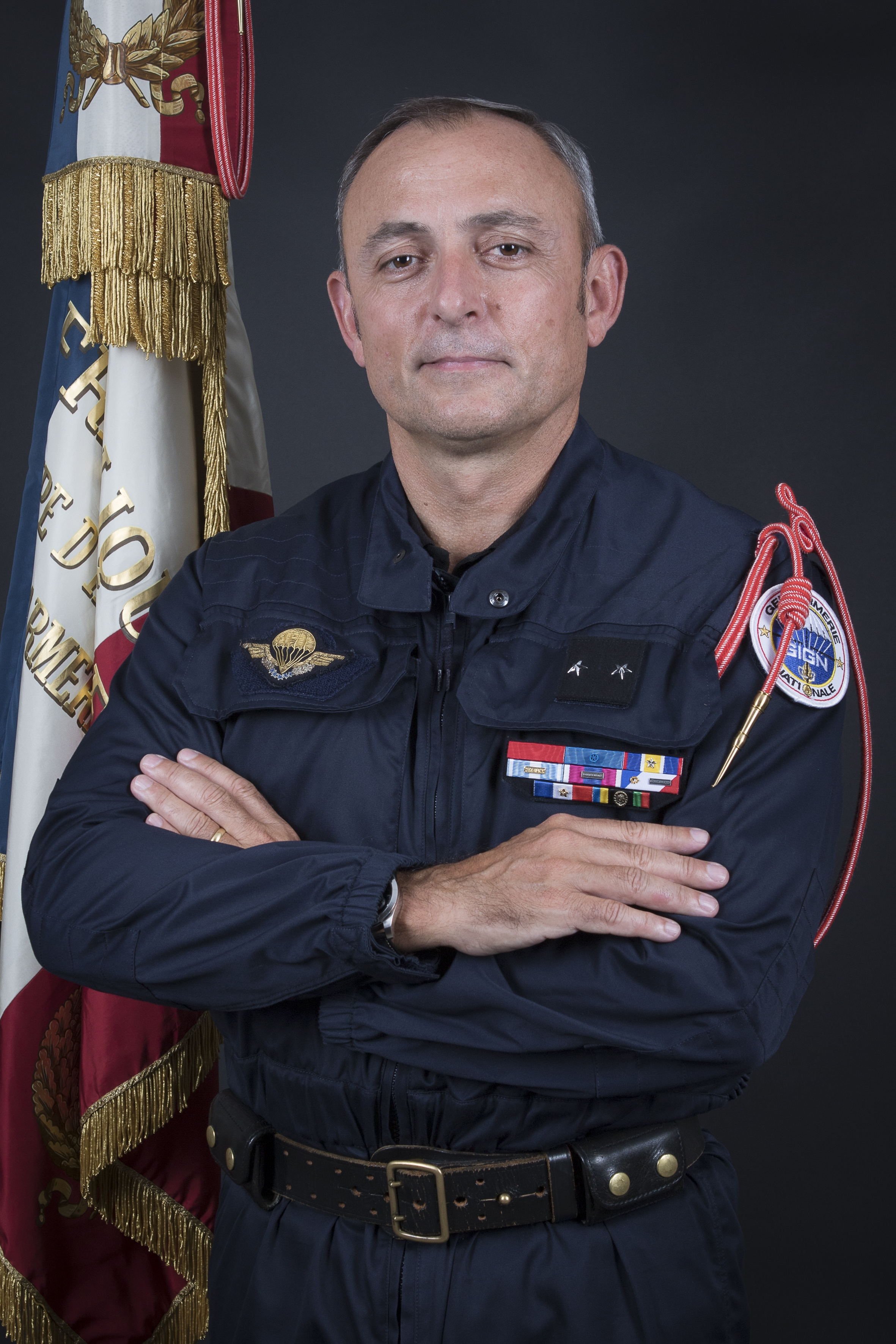 Général de Brigade Hubert Bonneau, CO GIGN